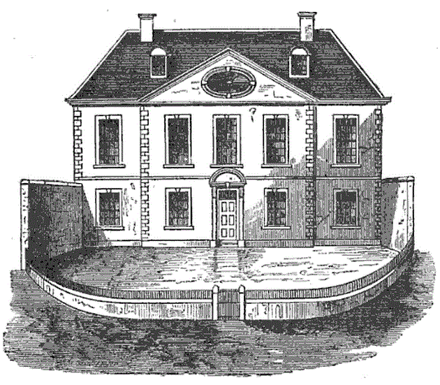 Drawing of the Lord's House on Fargate in Sheffield